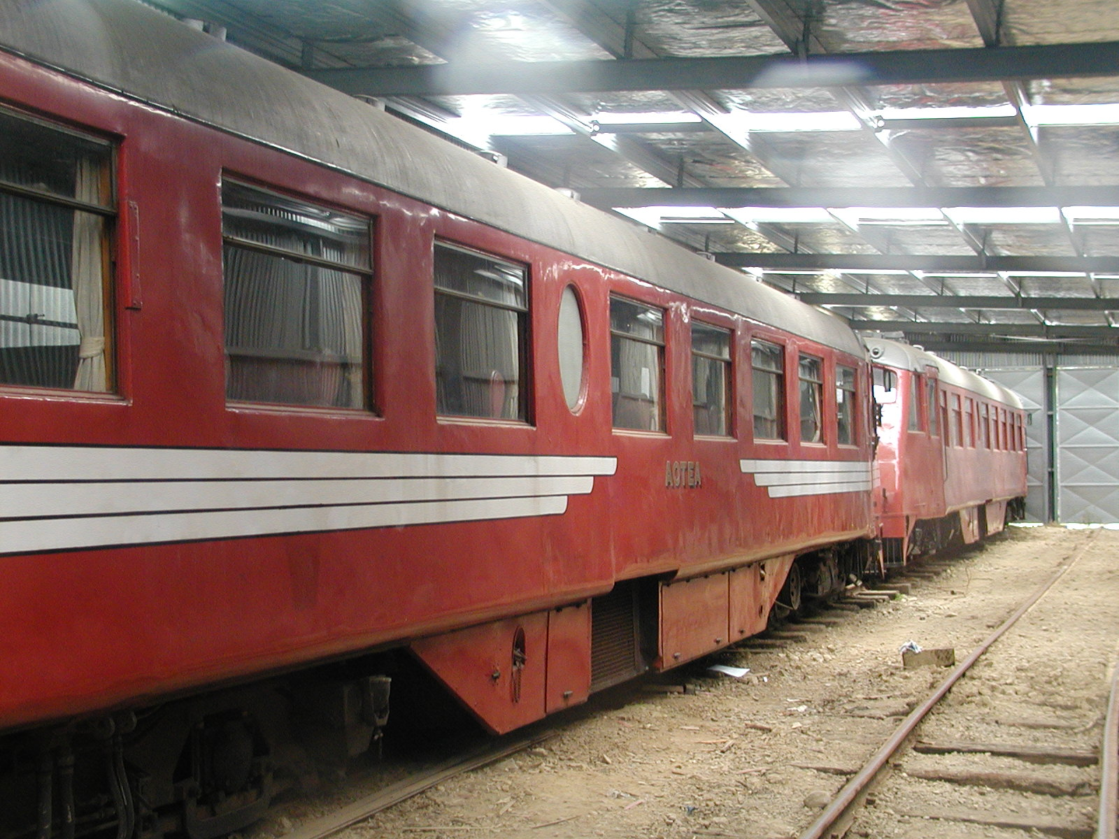 diesel railcars in the shed, silver stream railway, new zealand